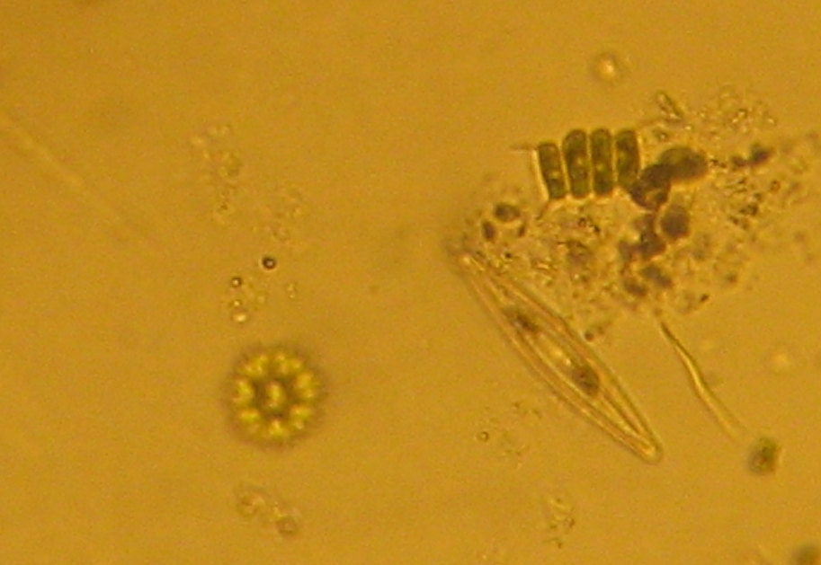 Eutrophic lake phytoplankton (diatom, pediastrum, scenedesmus and others). Northern Poland.